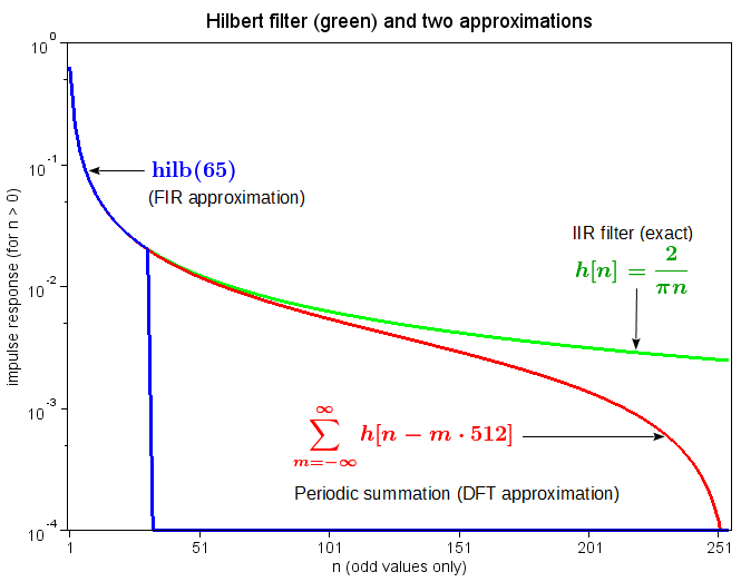 The green graph is a section of the infinitely long Hilbert transform filter impulse response. The blue graph is a shorter section, produced by the Scilab function hilb for use as an FIR filter. hilb apparently just applies a simple rect window, but other windows are also possible. When the filtering (convolution) is performed by multiplication of DFTs in the frequency domain (circular convolution), people sometimes replace the DFT of hilb with samples of the DTFT (discrete-time Fourier transform) of h[n] = 2/(πn), whose real and imaginary components are all just 0 or ±1, thereby avoiding actual multiplications. But in that case, the convolution is actually being done with the periodic summation of h[n], shown in red. Unlike hilb , it never goes to zero, which means that the "edge effects" of circular convolution affect (distort) every output sample. They can't simply be eliminated by discarding a few corrupted samples. That effect is generally worse than the distortion caused by windowing the h[n] sequence, even with the crude rectangular window. (example)